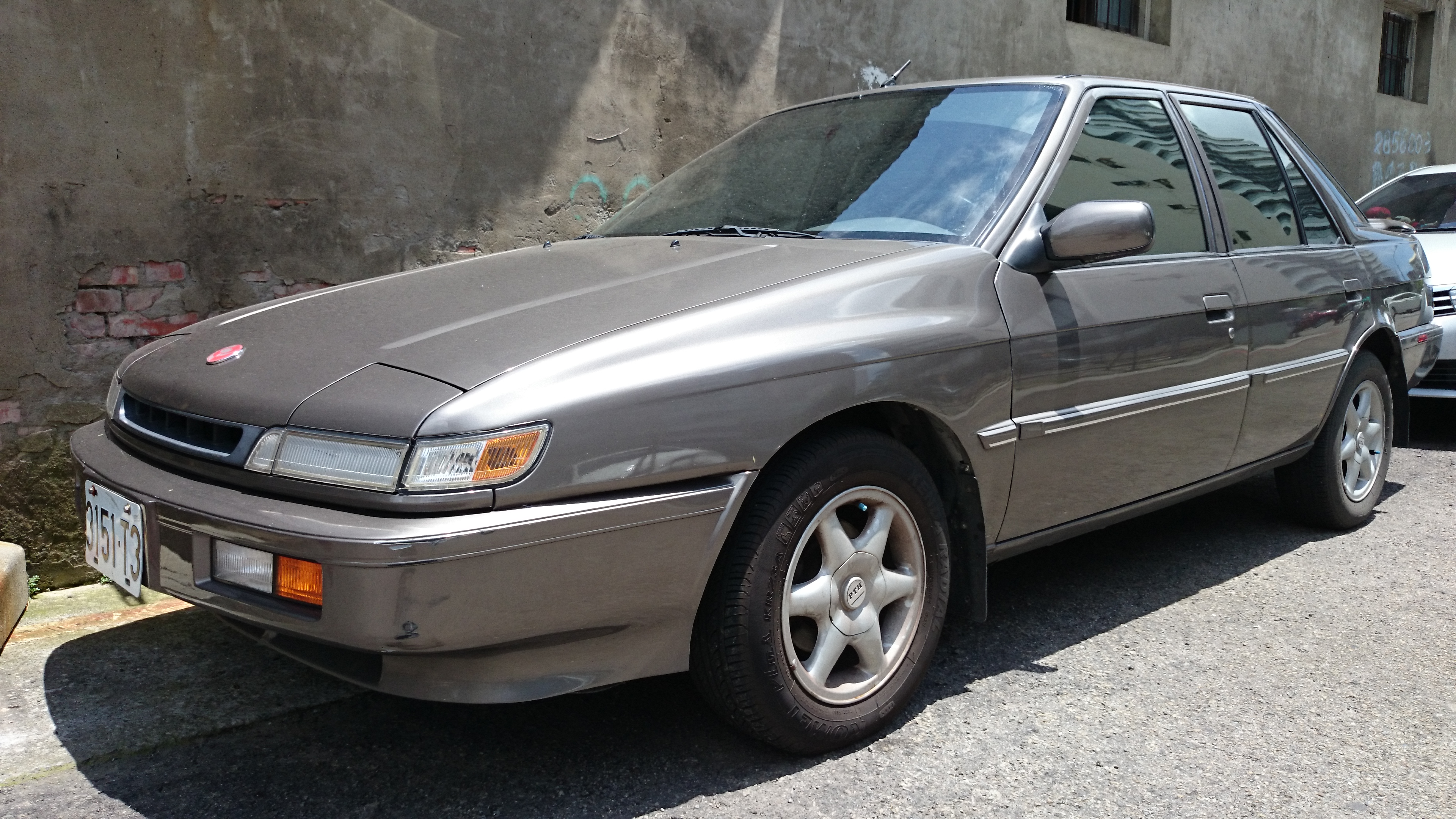 Yulon Arex 3151-T3.中文（台灣）: 裕隆精兵3151-T3。